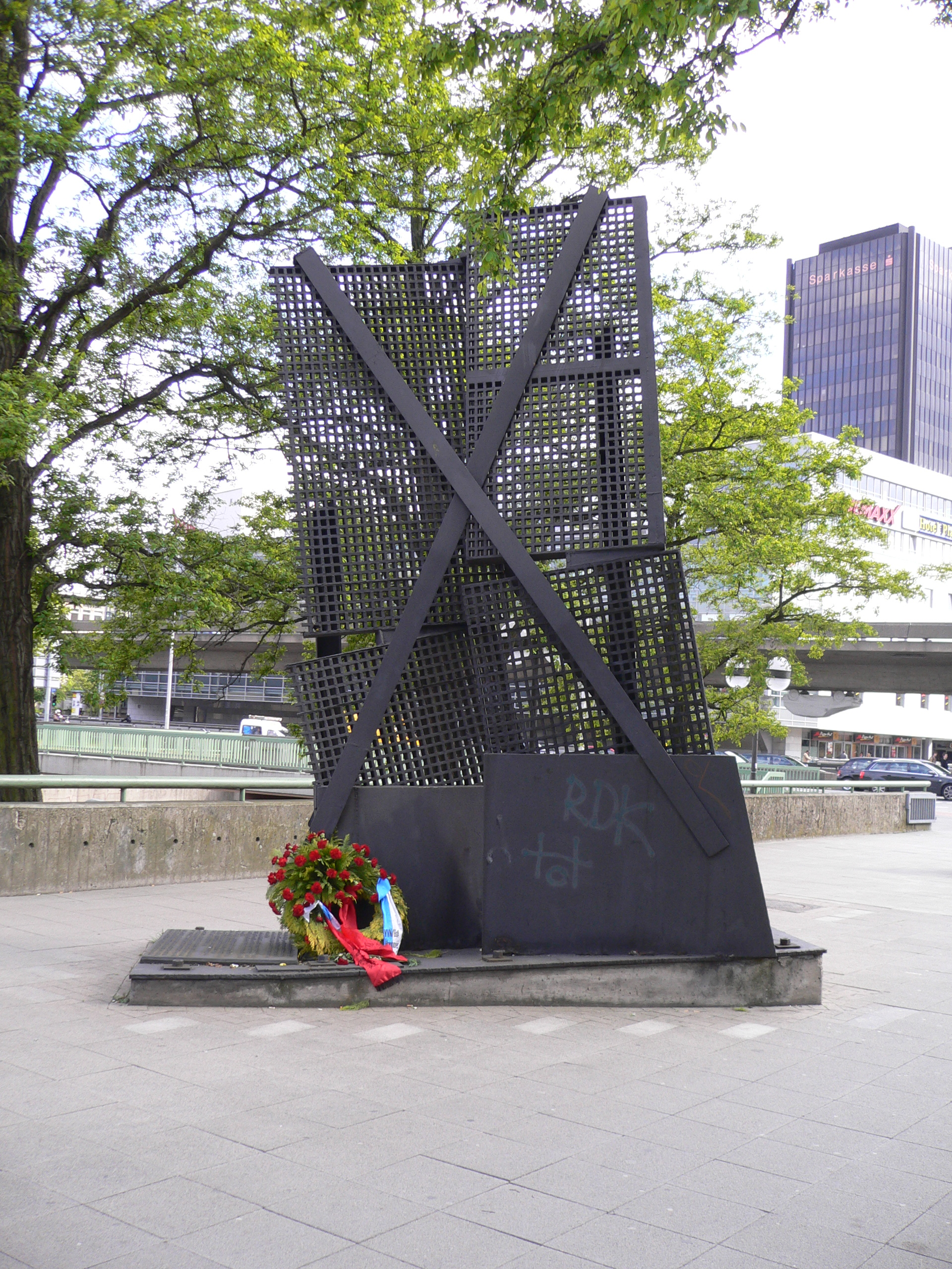 Memorial to all the groups of victims of the Nazism in Hanover between culture center Pavillon, Raschplatz place and the Hannover Central Station "Hannover Hauptbahnhof" (Hannover Hbf)